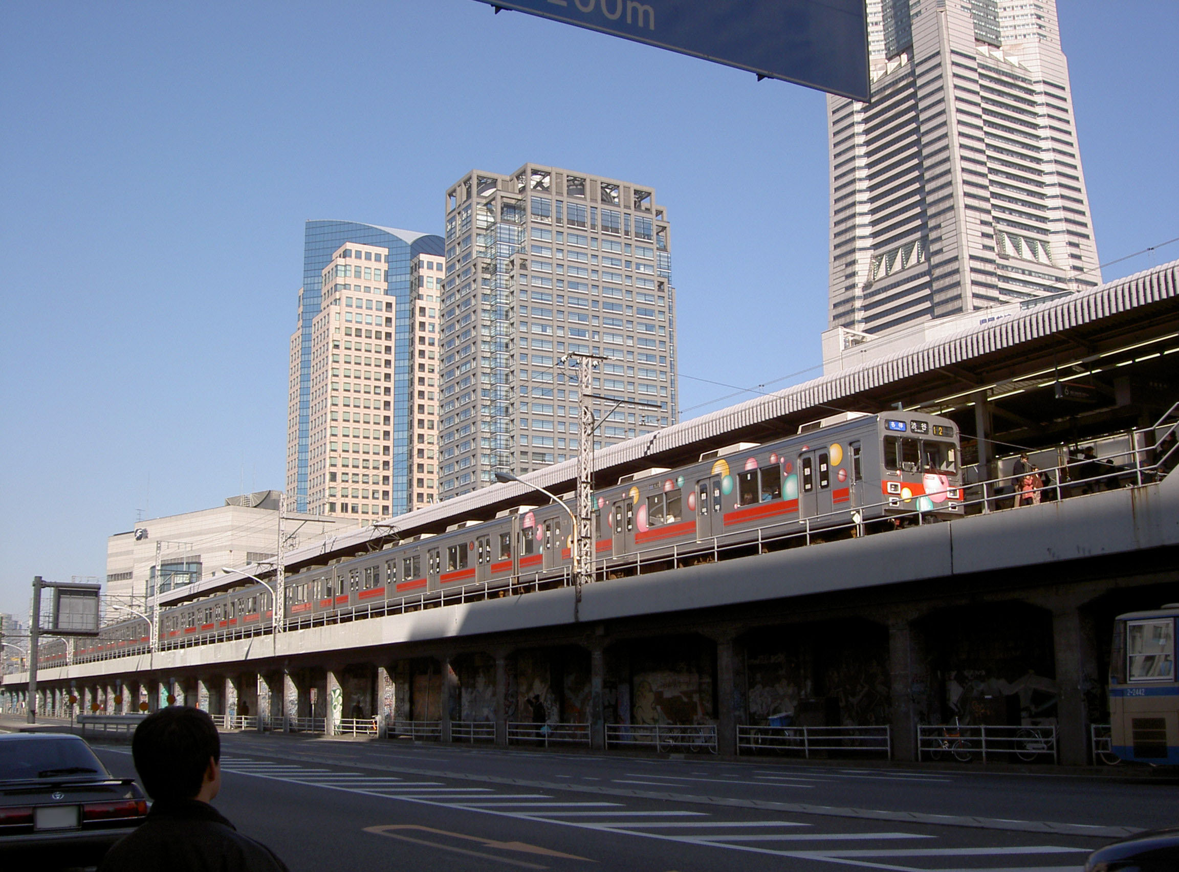 A Tokyu 9000 series EMU at Sakuragicho Station on the Tokyu Toyoko Line (now demolished)